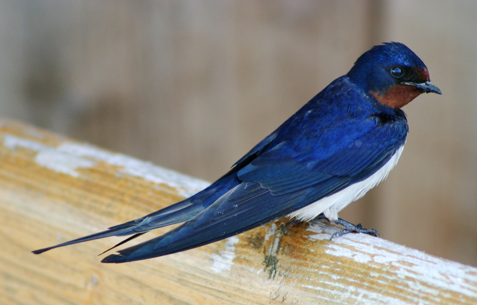 Barn swallow (Hirundo rustica). The photo is taken in the summer 2004. The place is the viewpoint at Bygholm vejle in Denmark. The swallow was very occupied with feeding the youngs, but for a minute or so it rested here, only a few meters away from me. See also the two other danish species of swallows.